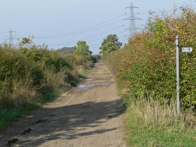 Heading north along Sewstern Lane This is also the Viking Way footpath.